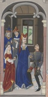 Marriage of count Louis II of Loon and Ada of Holland in 1203.